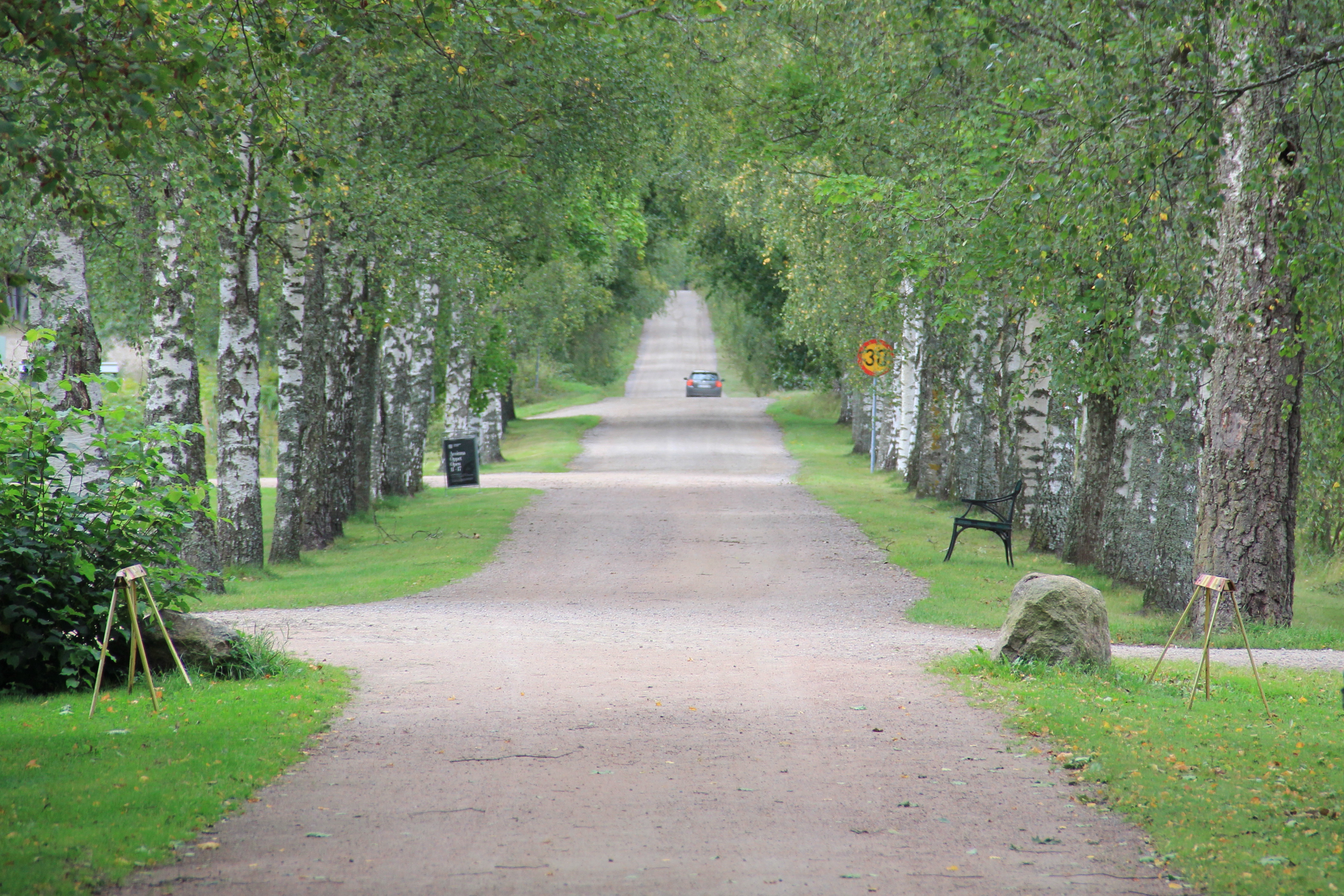 Louhisaari manor, Askainen, Masku, Finland. - Louhisaari allée seen from the Cour d'honneur.